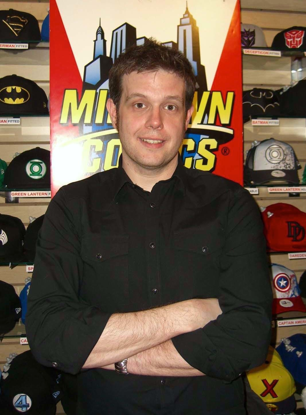 Comic book artist Shane Davis at a signing at Midtown Comics Downtown in Manhattan, April 20, 2011. Photographed by Luigi Novi. This photo is not in the public domain. It may, however, be used, modified and published for any purpose, free of charge, only if an easily visible credit to the photographer is placed near the photo in each instance in which it is used. (See licensing information below.) Publication of this photo without this proper attribution constitutes copyright infringement. For more information on my photos, you can contact me here.